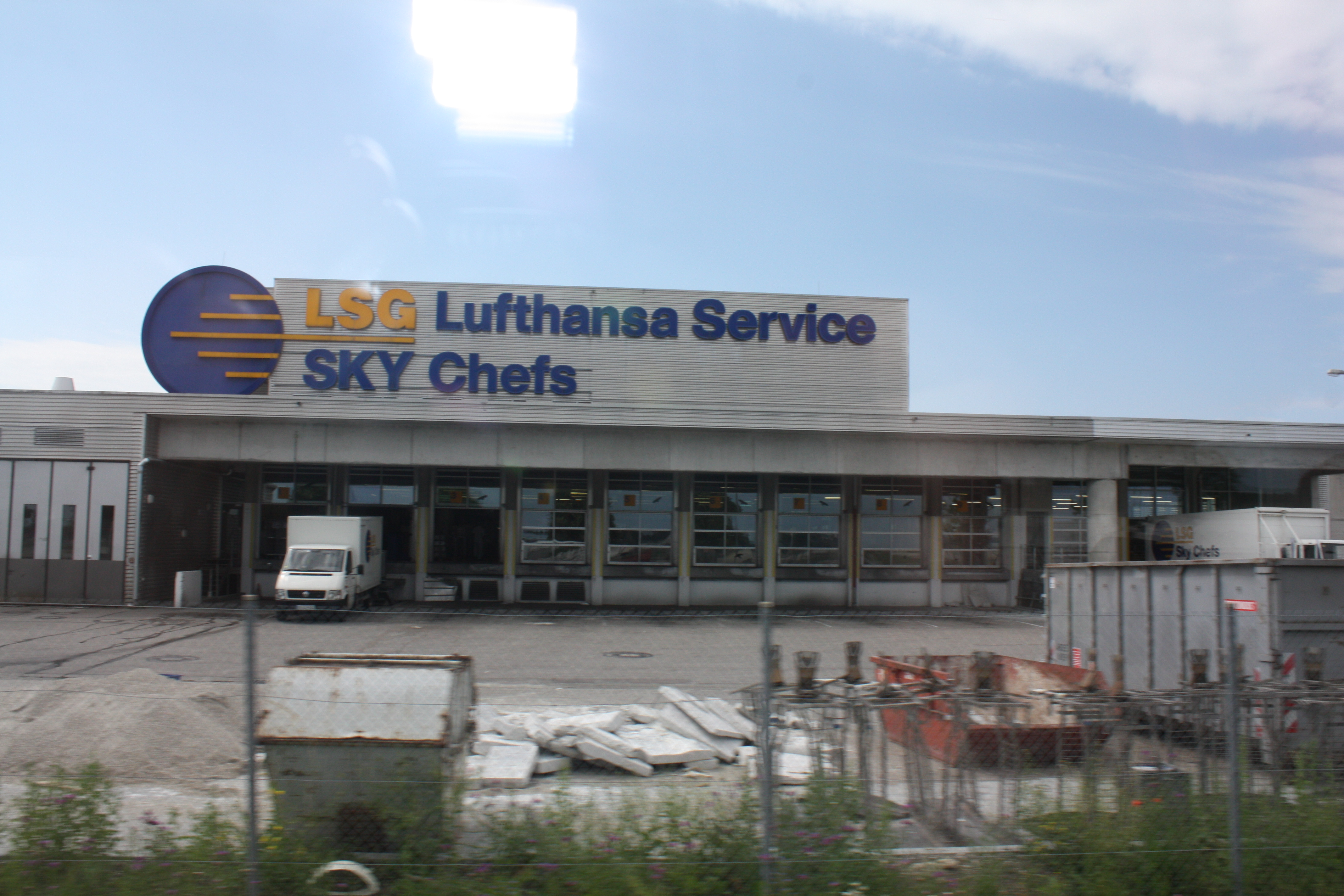 LSG Sky Chefs in Munich Airport